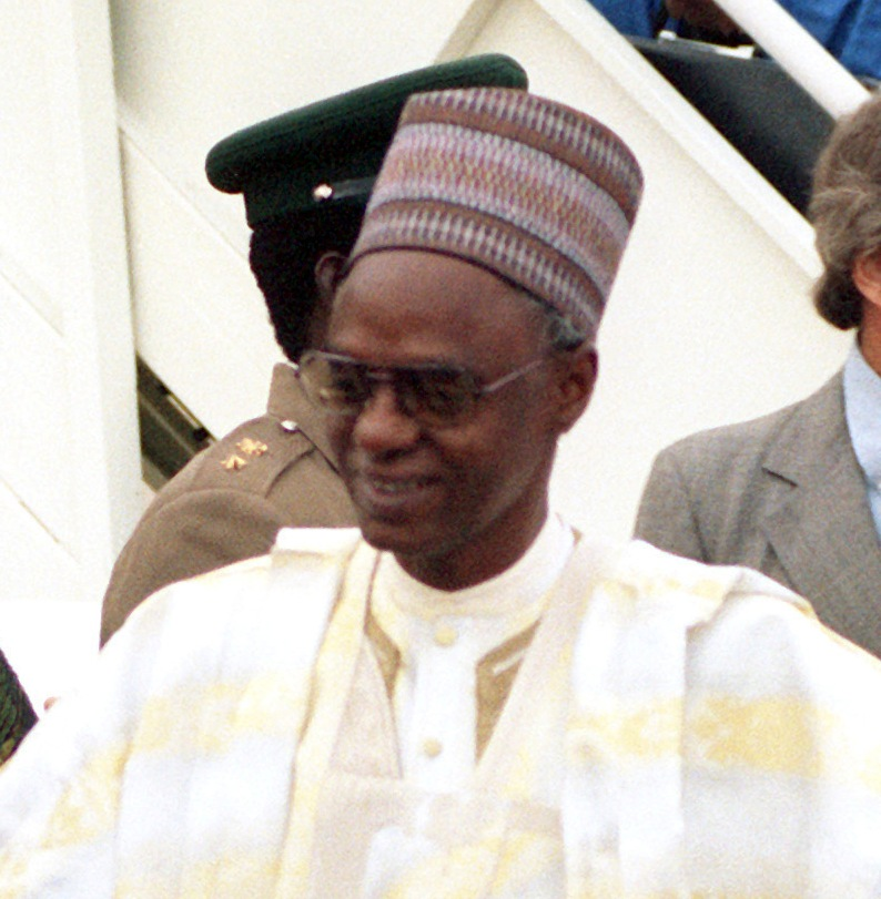 Shehu Shagari, President of Nigeria, arriving at Andrews Air Force Base in the US.